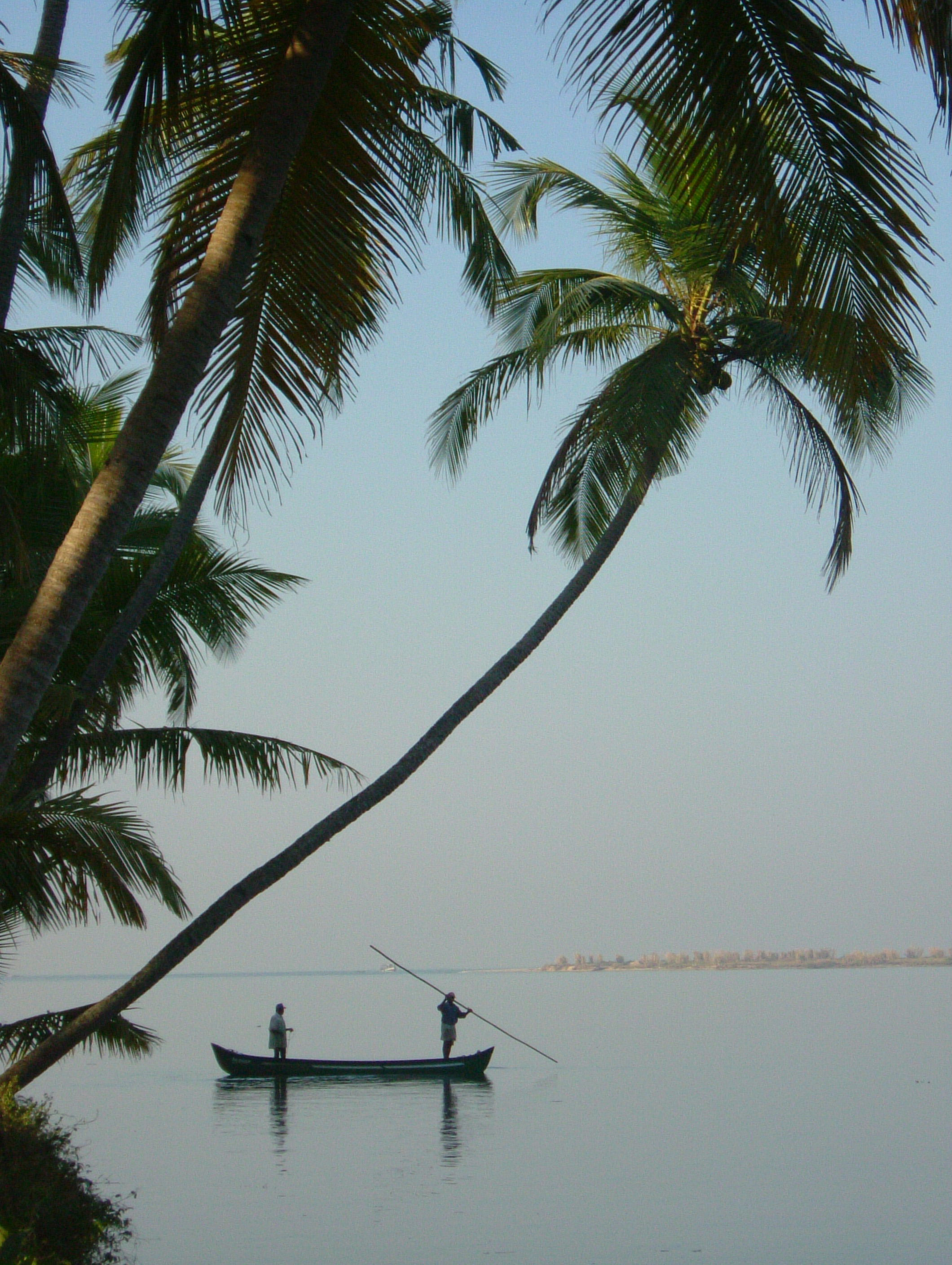 Fishing near Mukka, - see Mangalore, India.